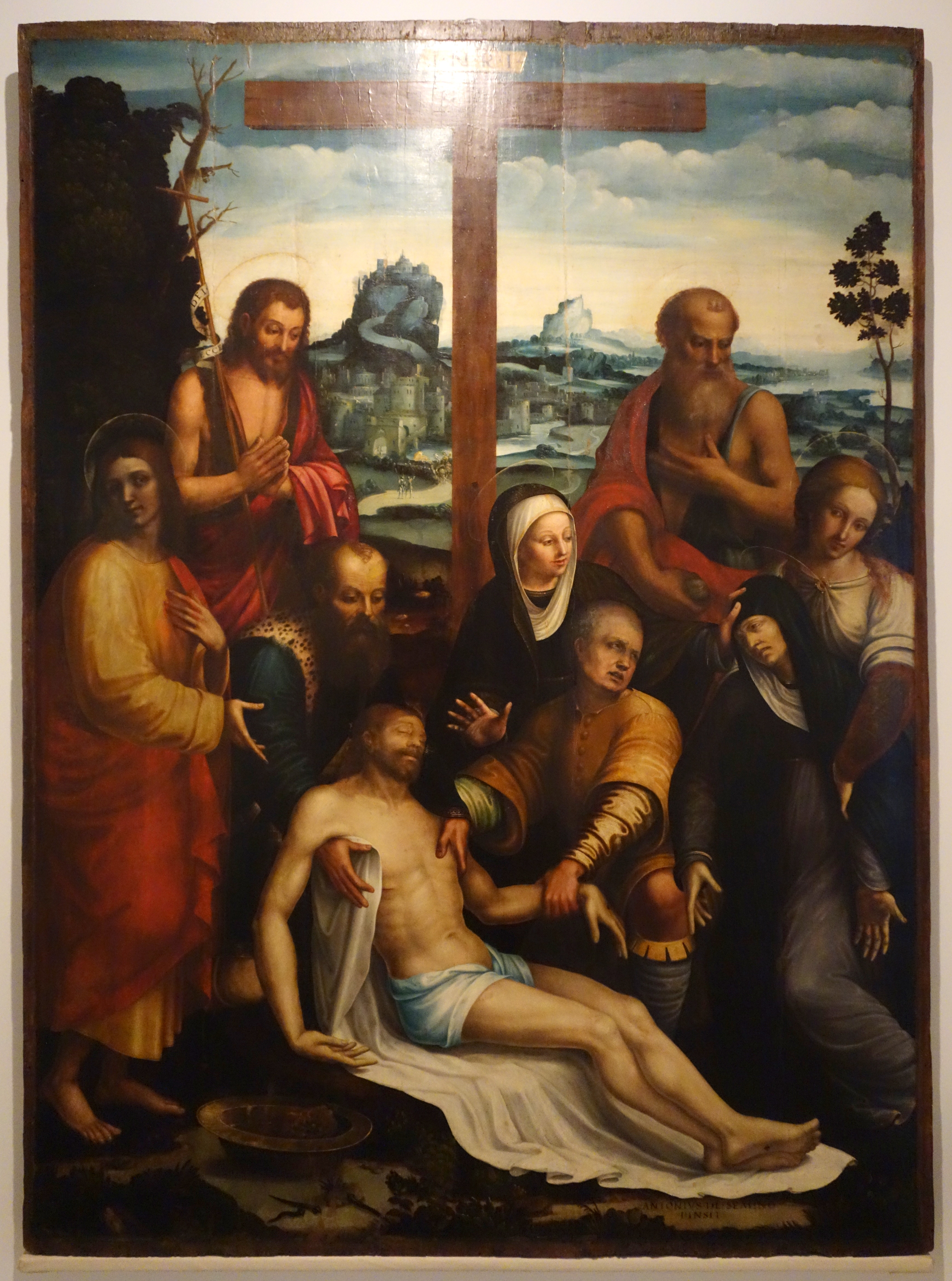 Exhibit in the Accademia Ligustica di Belle Arti, Genoa, Italy. This artwork is old enough so that it is in the public domain.